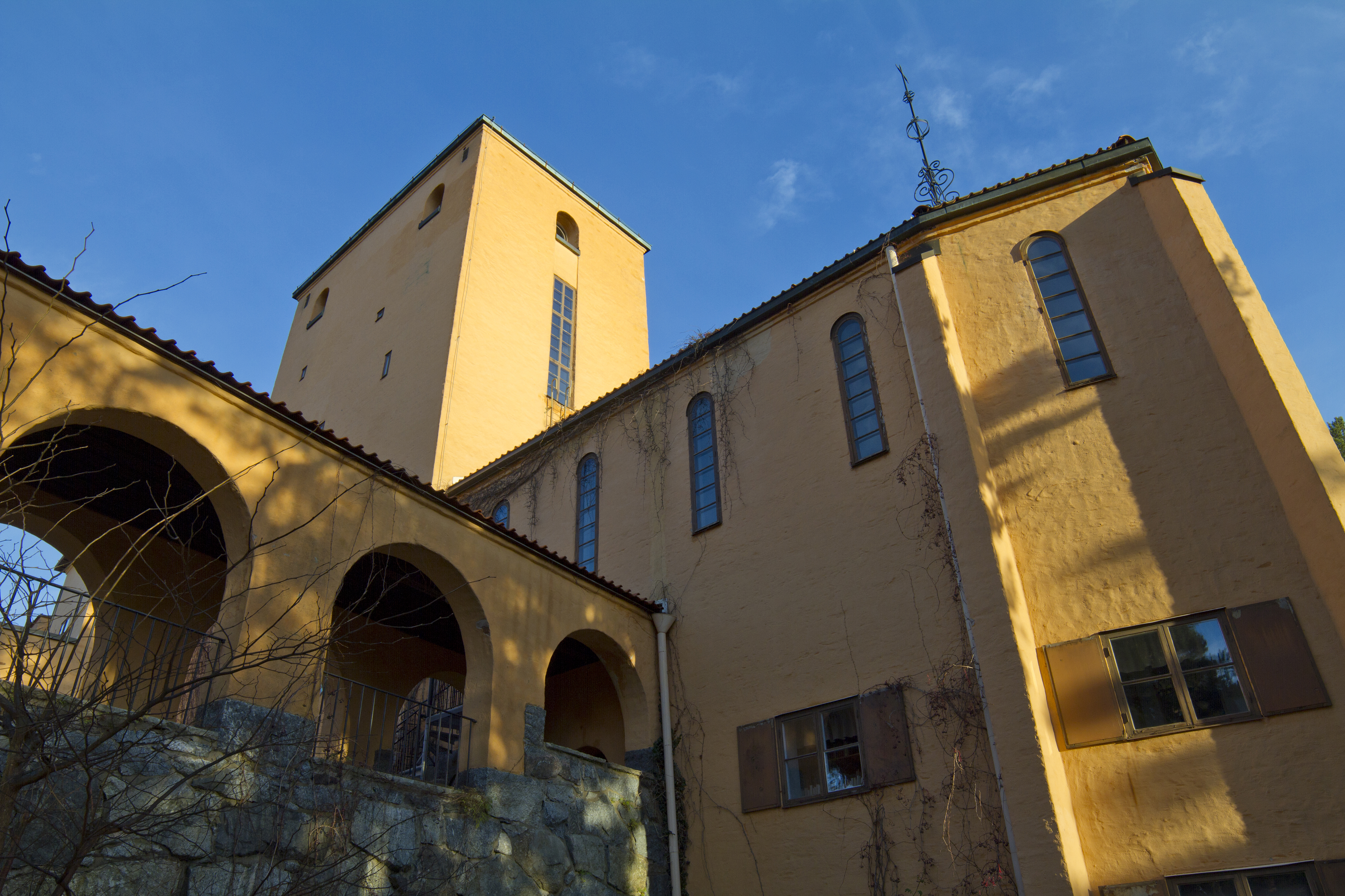 Sigtunastiftelsen in Sigtuna, Sweden